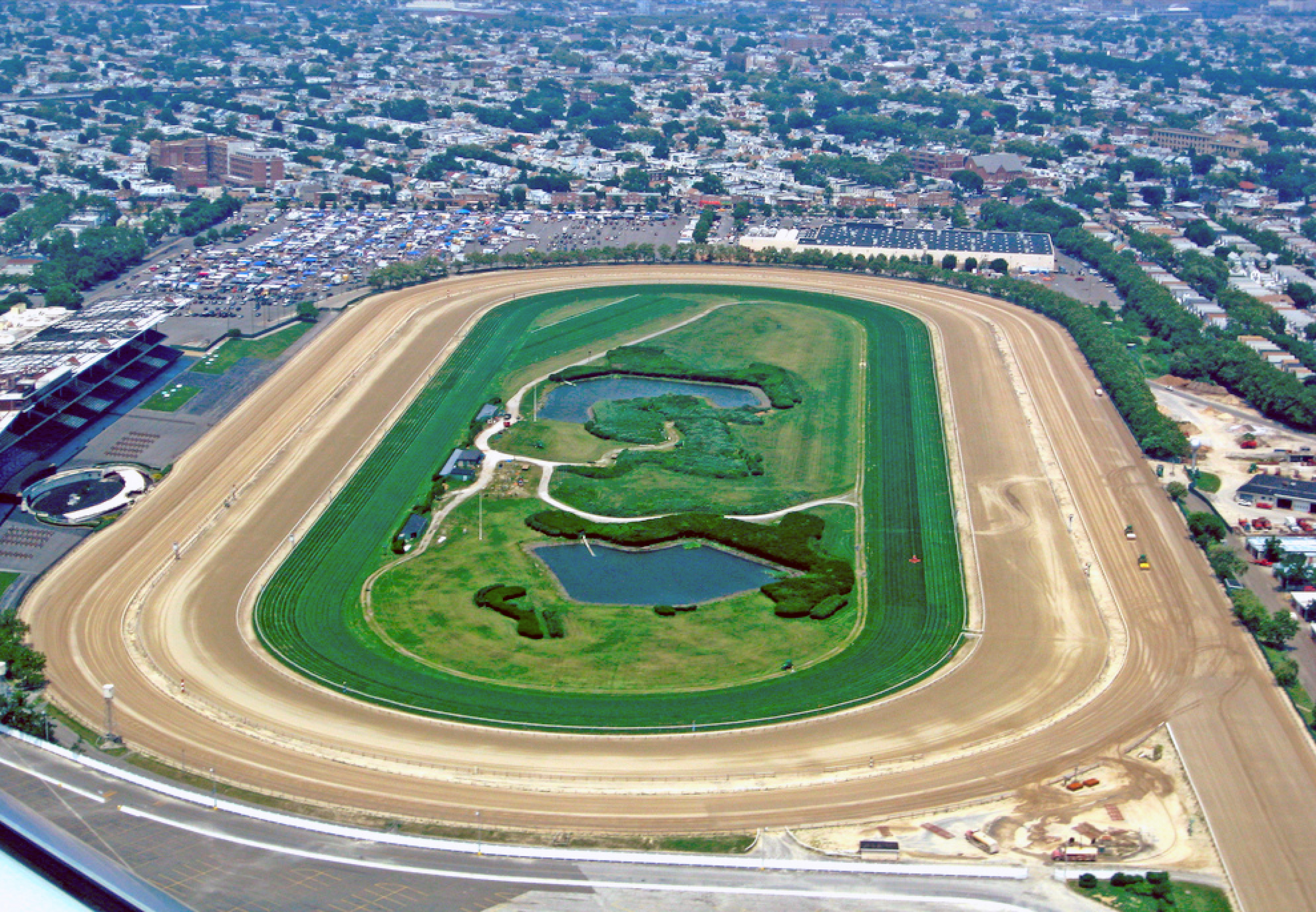 Looking north at Aqueduct Racetrack.